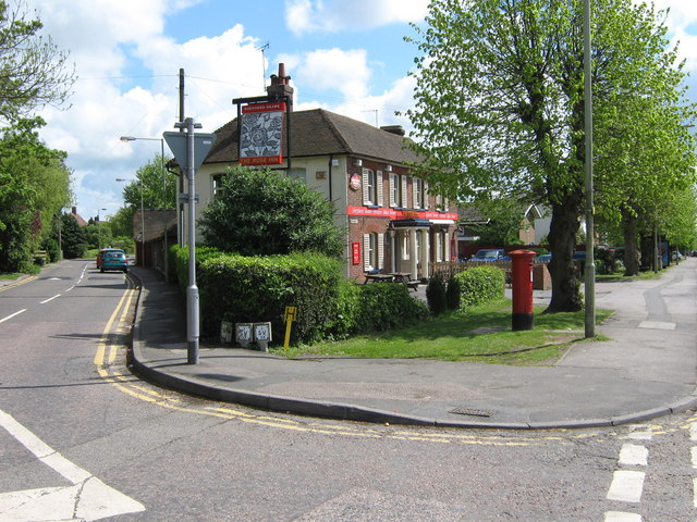 The Rose Inn, Kennington On junction of Ulley Road (on left) and A2042 Faversham Road (on right).